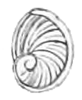 Drawing of an external side of operculum of Cremnoconchus syhadrensis